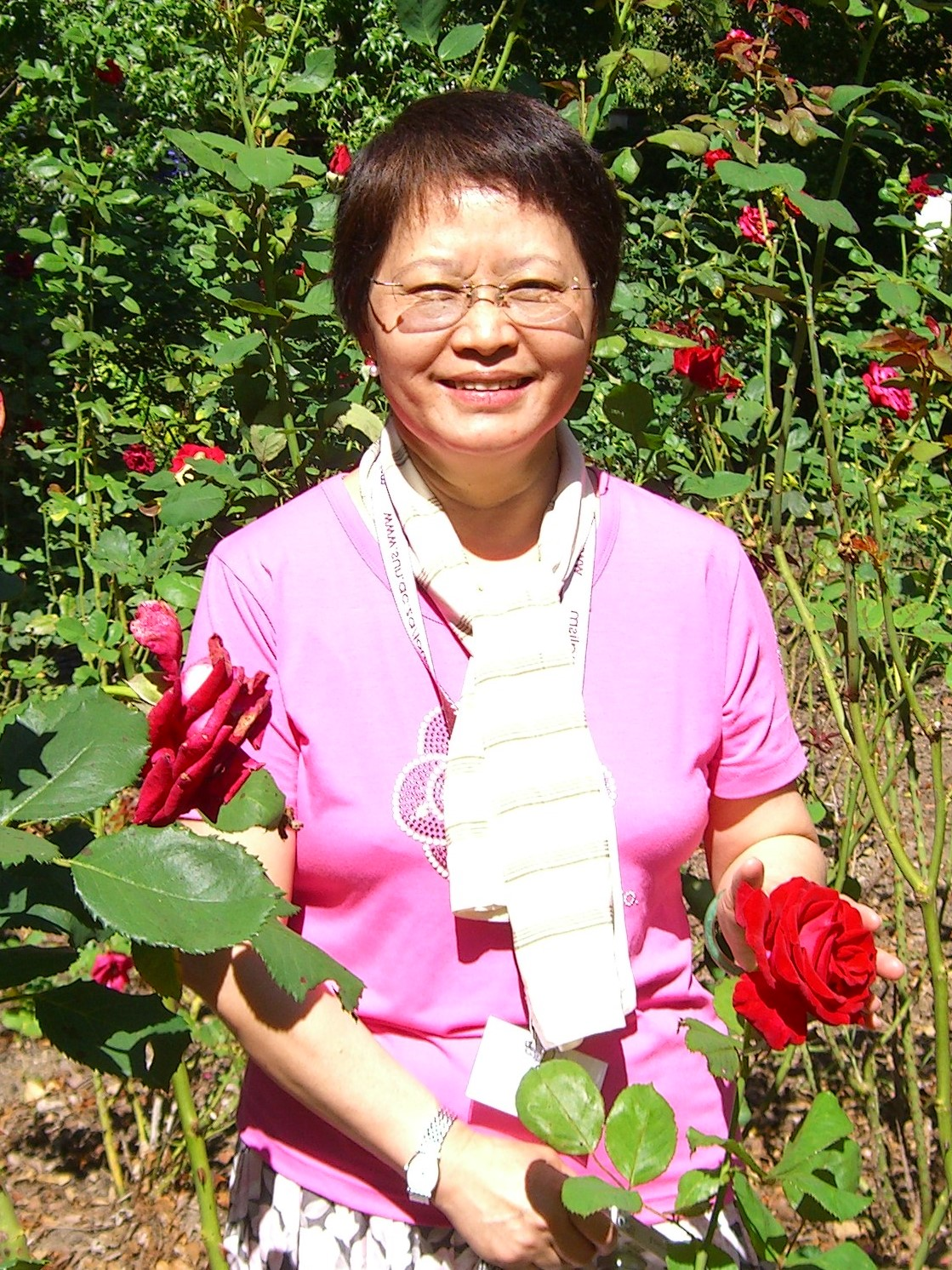 Ying-chun Hsieh